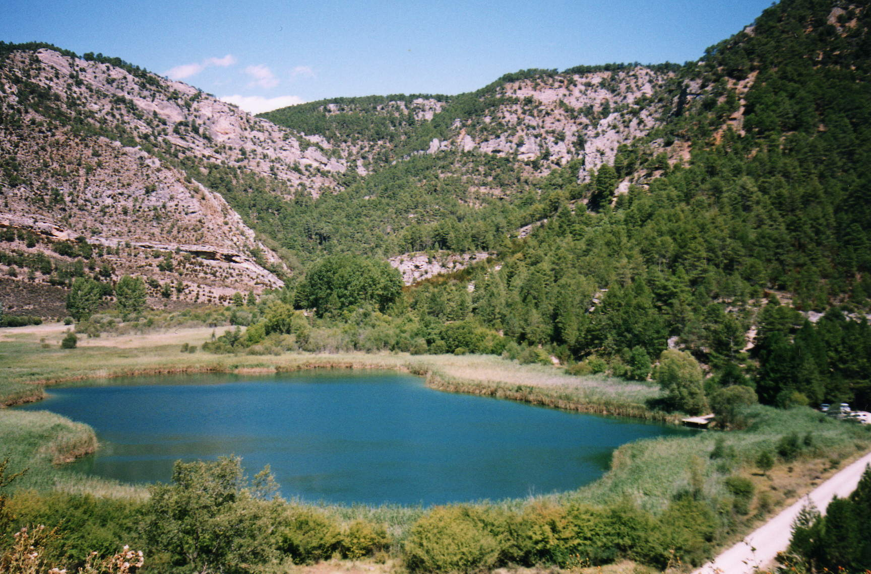 Taravilla lagoon, in Upper Tagus Natural Park, Guadalajara, Spain.